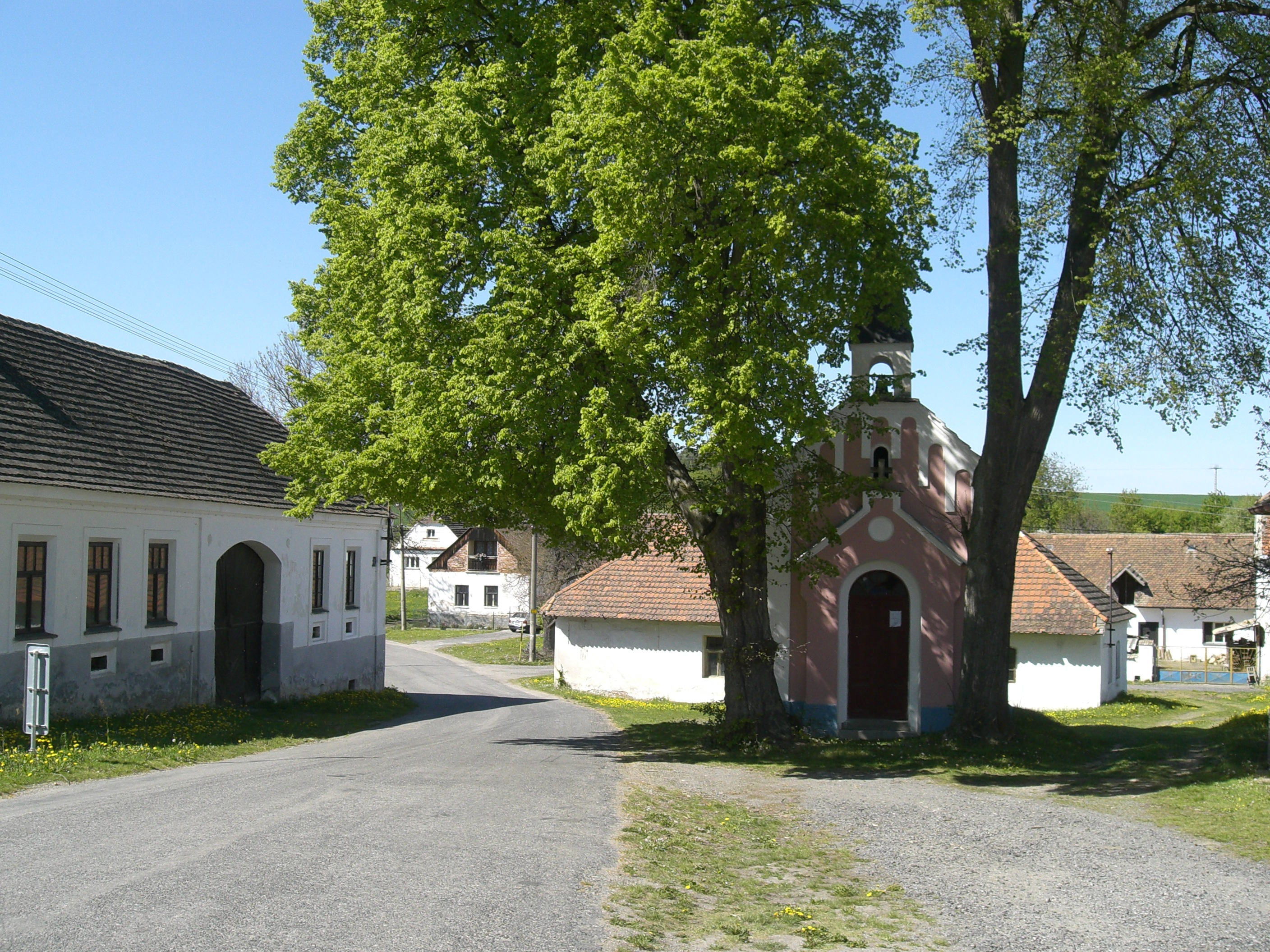 Svatonice village in Písek district, Czech Republic.